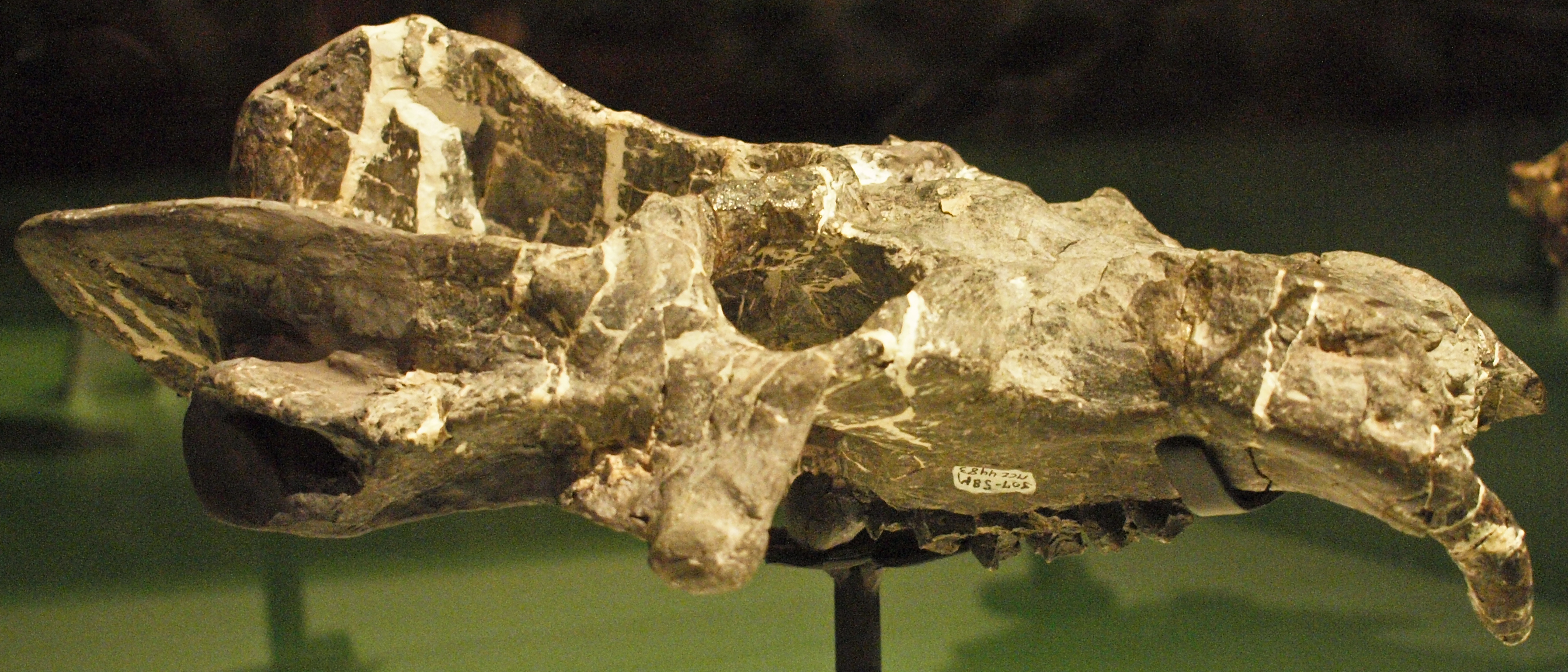 Skull of Exaeretodon on Display at the Royal Ontario Museum (MC2 4483)